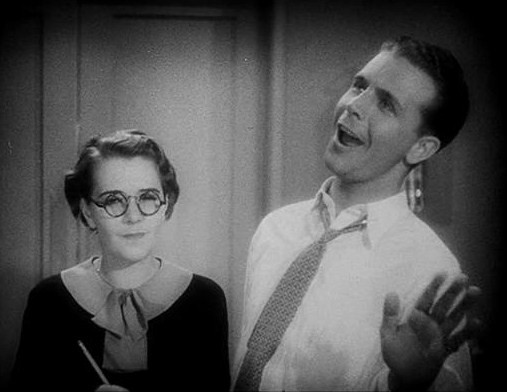 Frame from public domain trailer for Warner Bros. 1933 film Footlight Parade showing Ruby Keeler and Dick Powell